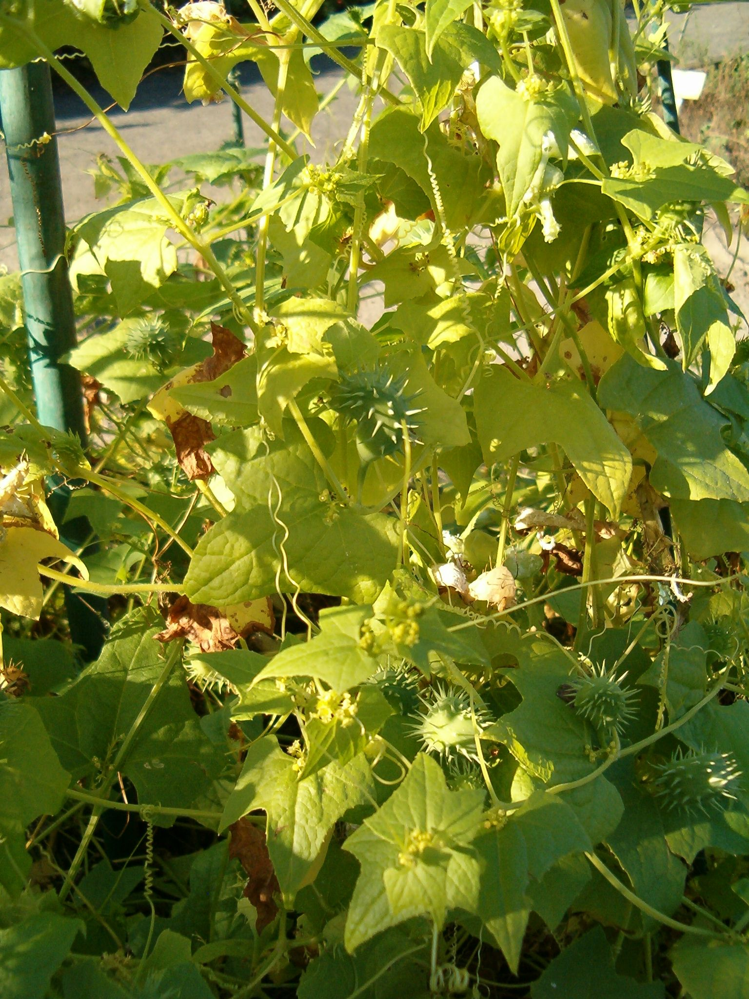 Location: Botanical Gardens Berlin Habitus, Leaves, Flowers and Fruits